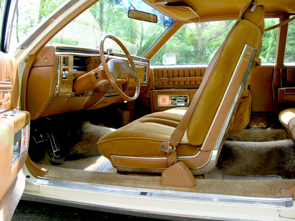 This 30,000 mile example is a base model with no options. None! Just a cloth bench seat. No tilt, no cruise, no rear defrost, no delay wipers,etc. Just all standard equipment.